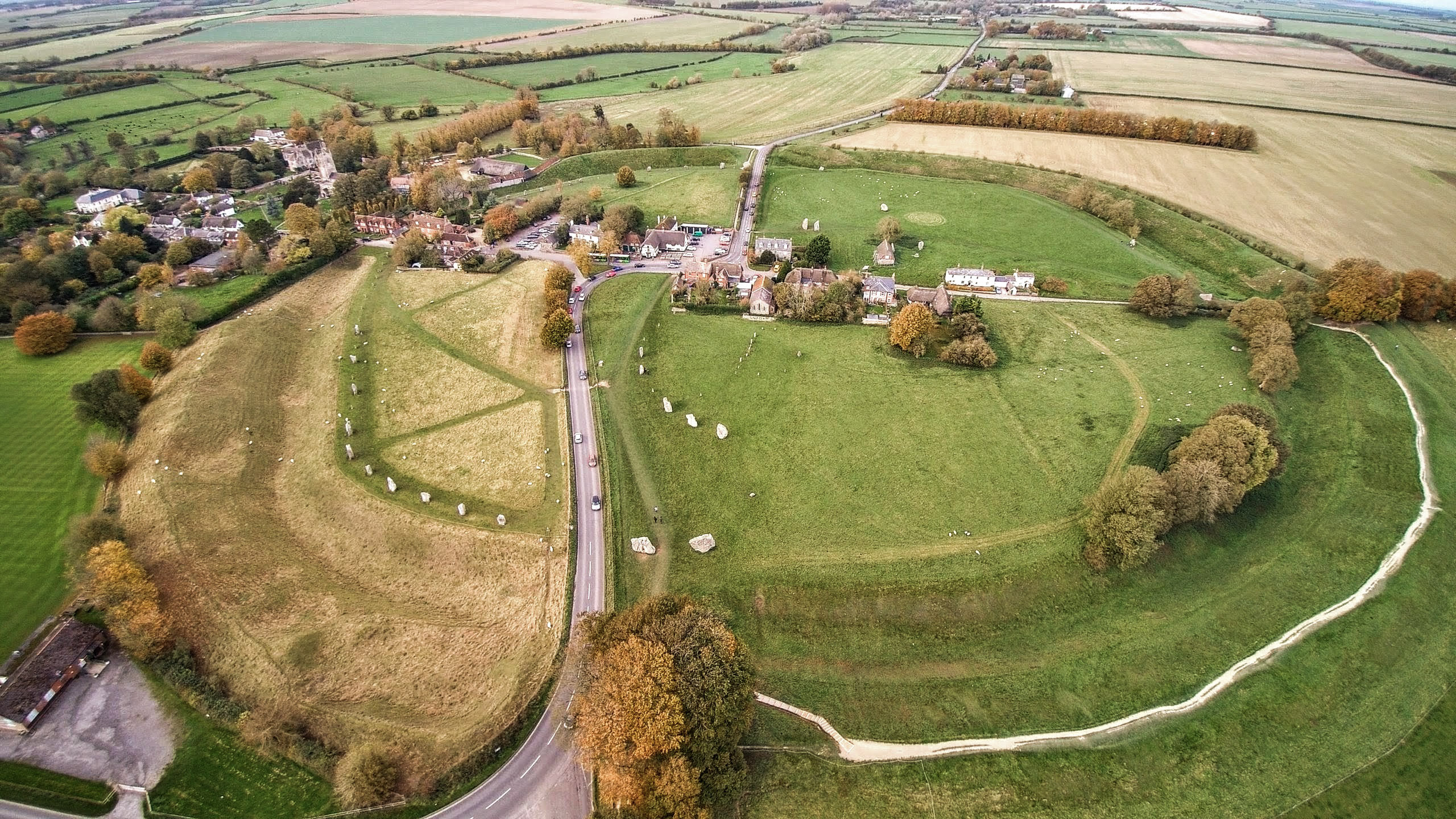 Avebury stone circles, full view from south